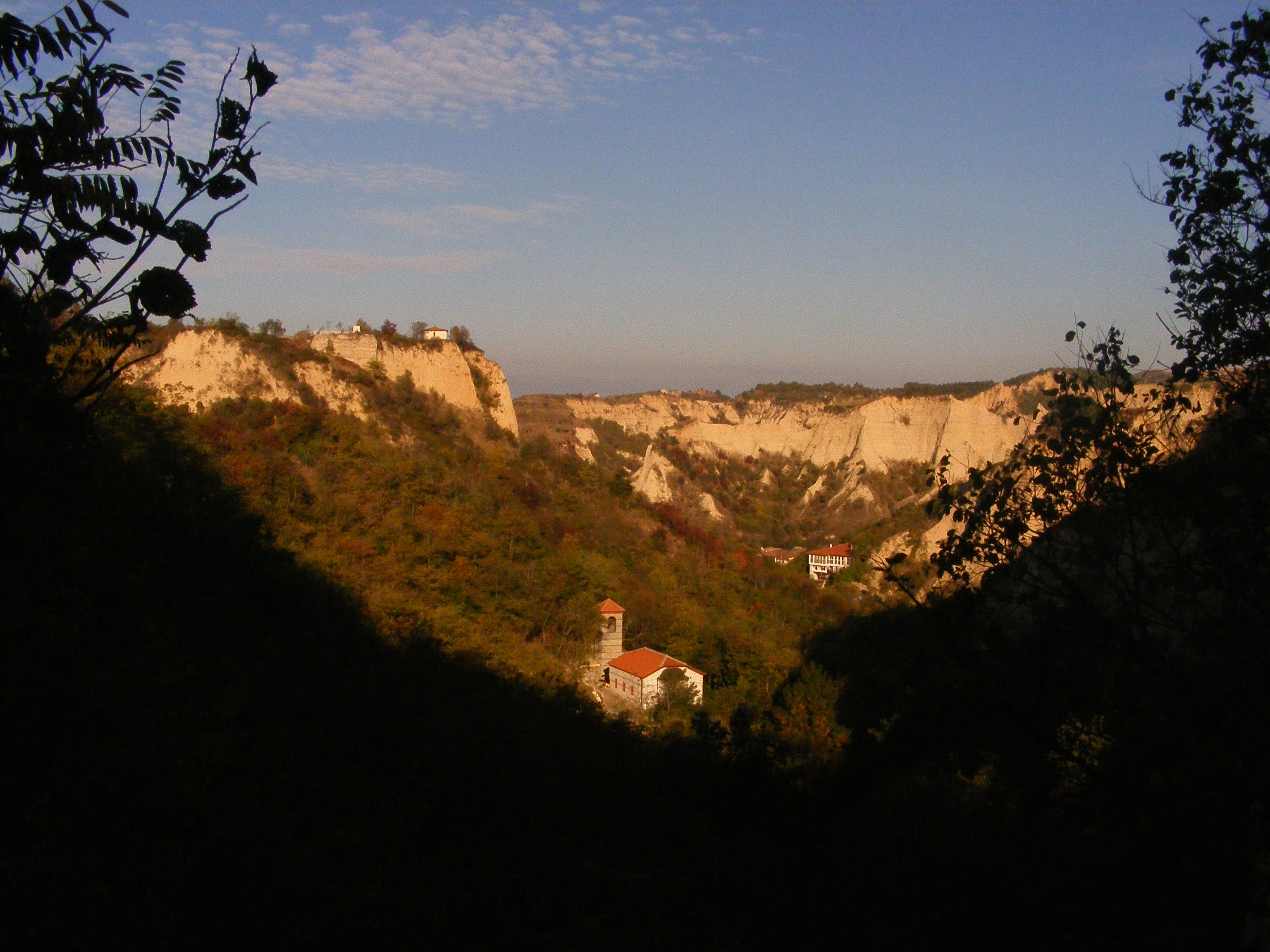 Church "St. Paraskeva - Petka", Melnik, Bulgaria